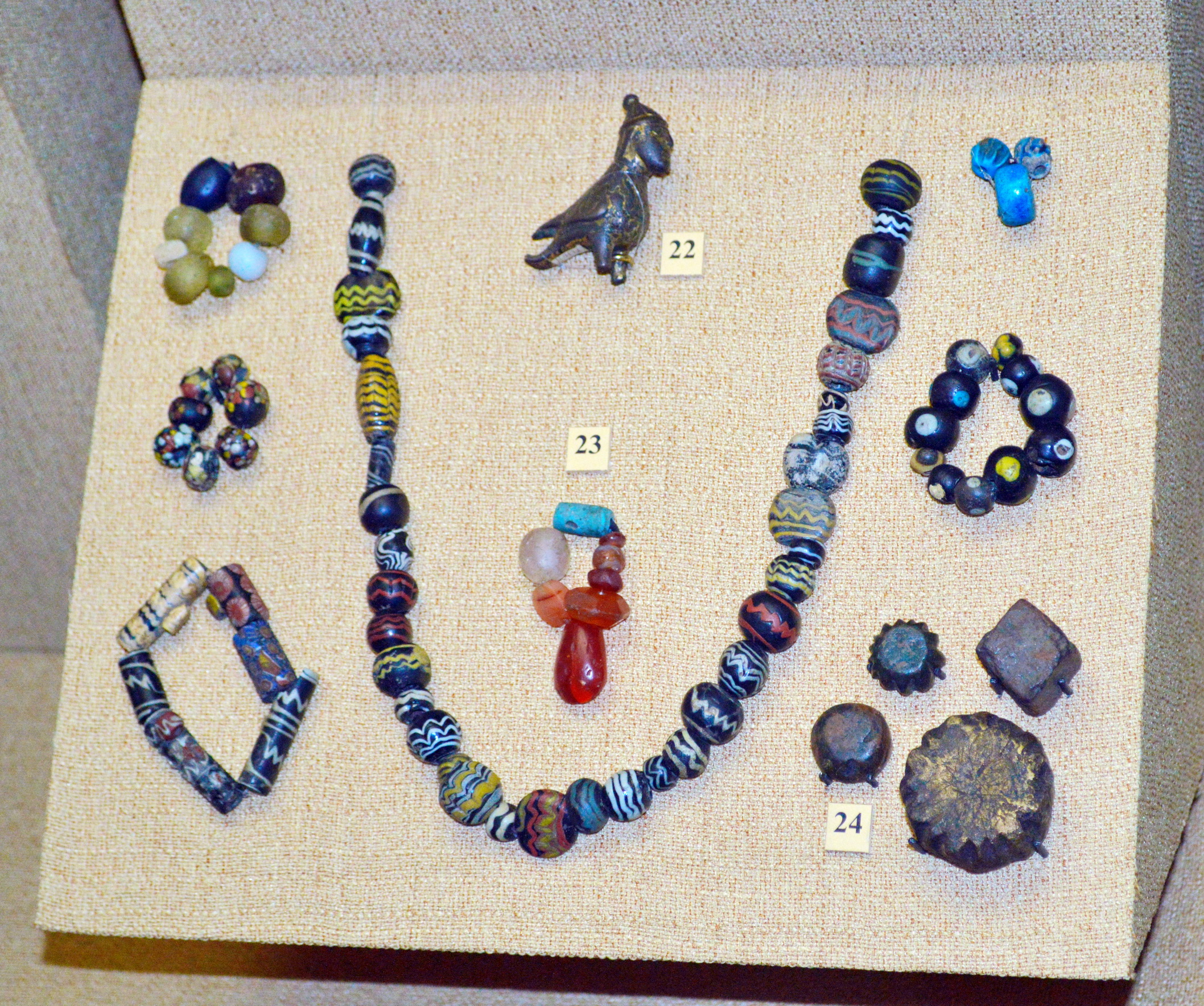 Necklaces, Sirin figurine, weights. Volga Bulgaria, 10-14 c.